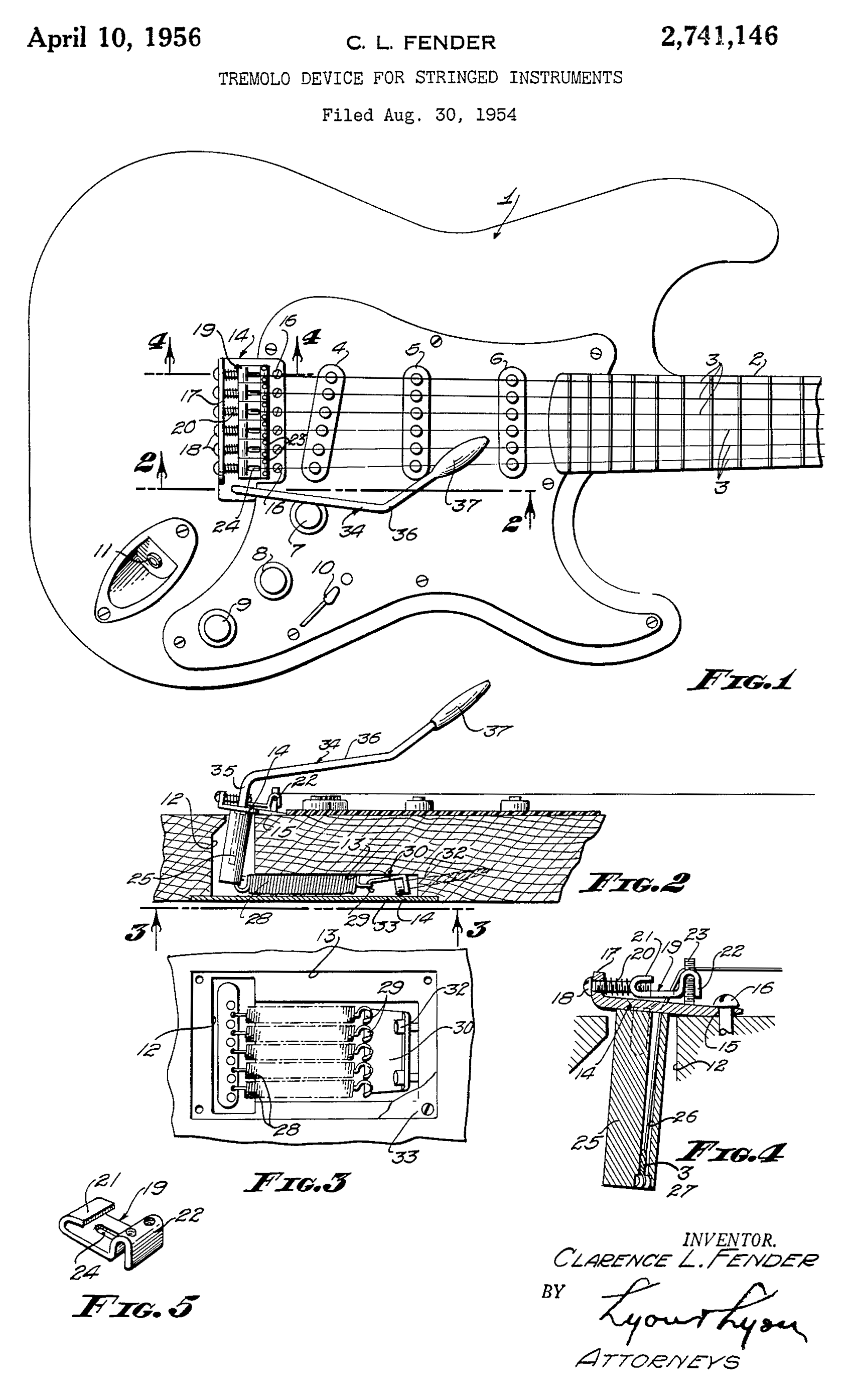 Diagrams of the tremolo system on the Fender Stratocaster from 1954 patent application.